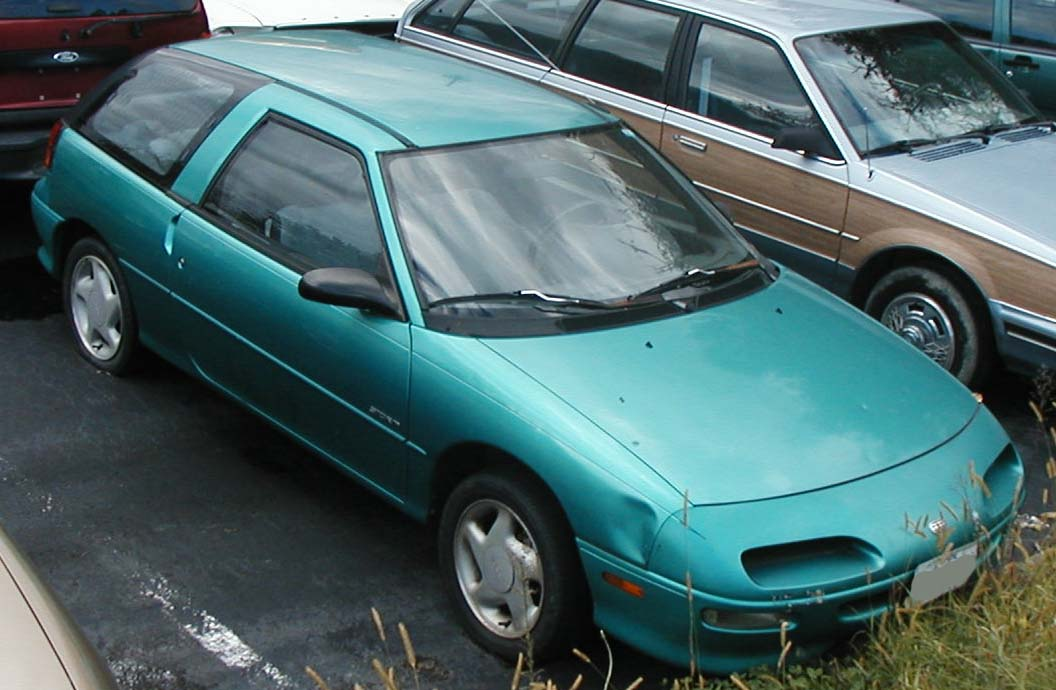 Geo Storm wagon photographed in USA.